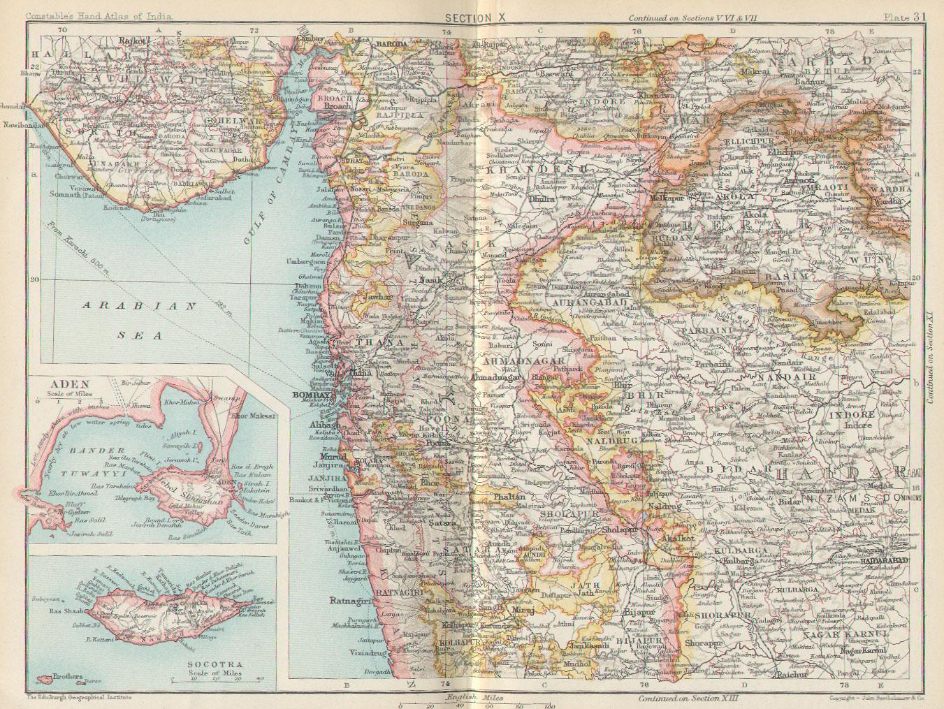 Map showing Bombay Presiddency, Aden and Berar